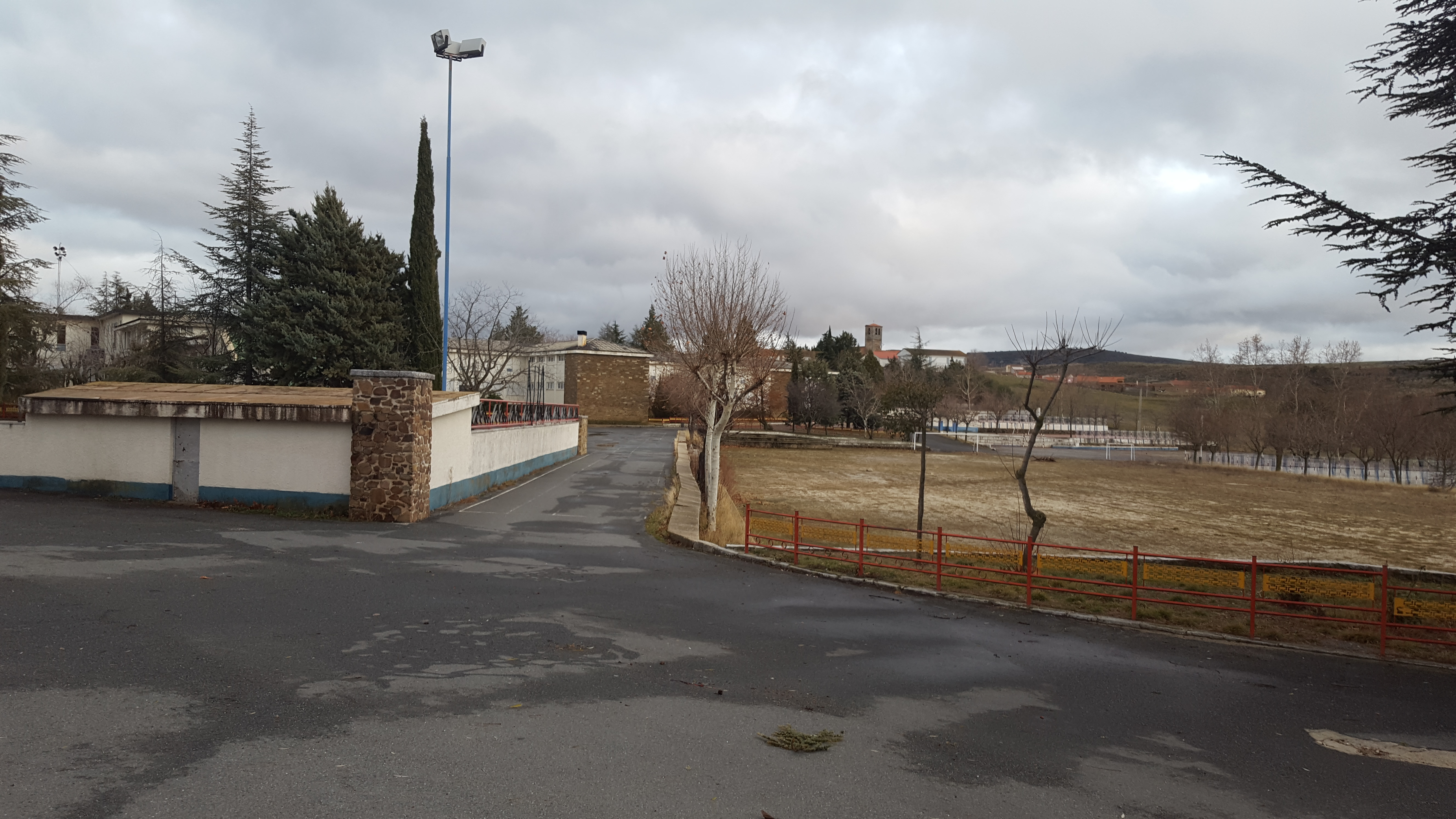 In the background church of Armenteros, from the Colegio de la Inmaculada, Salamanca, Spain